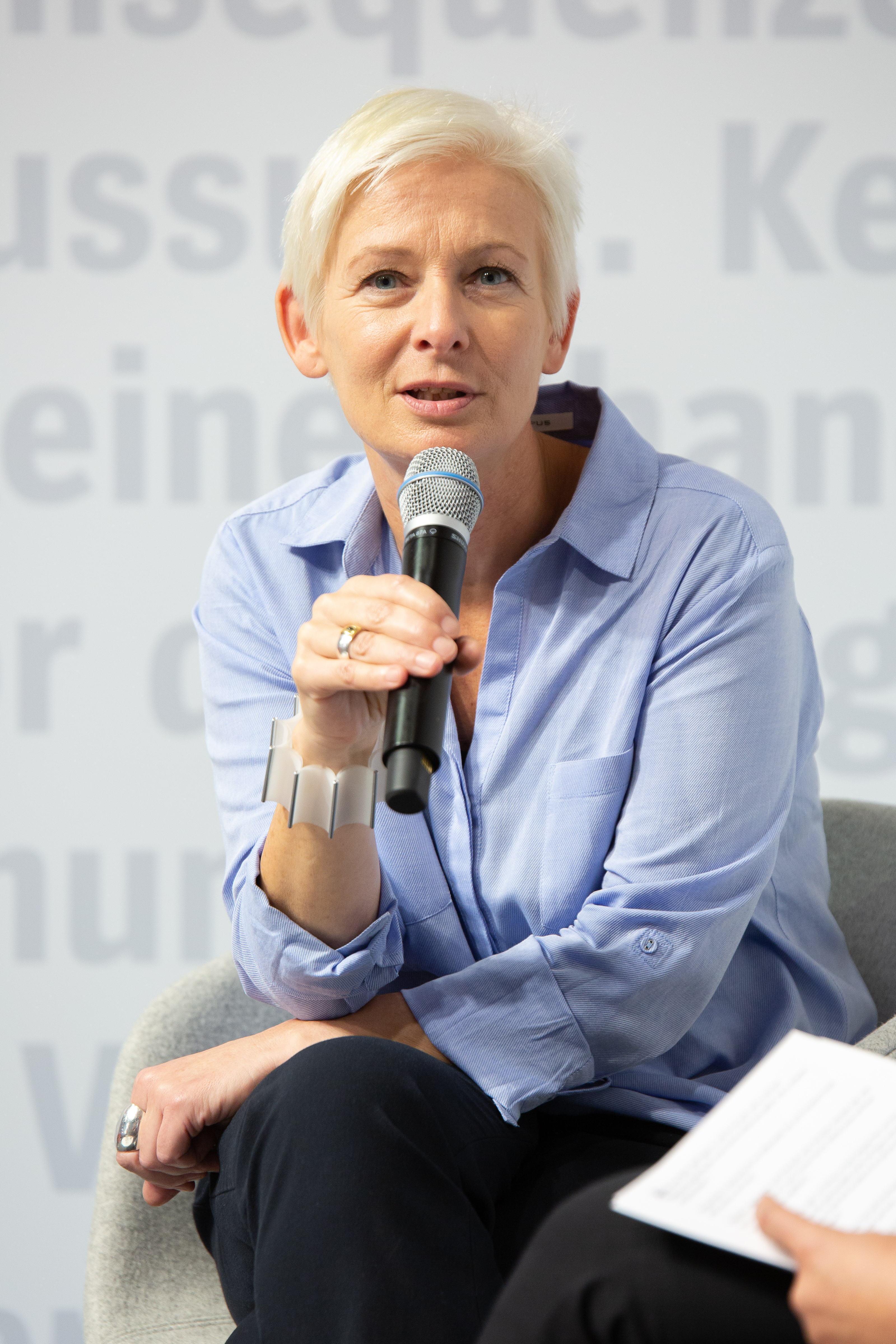 Dörte Hansen at theFrankfurt Book Fair 2018